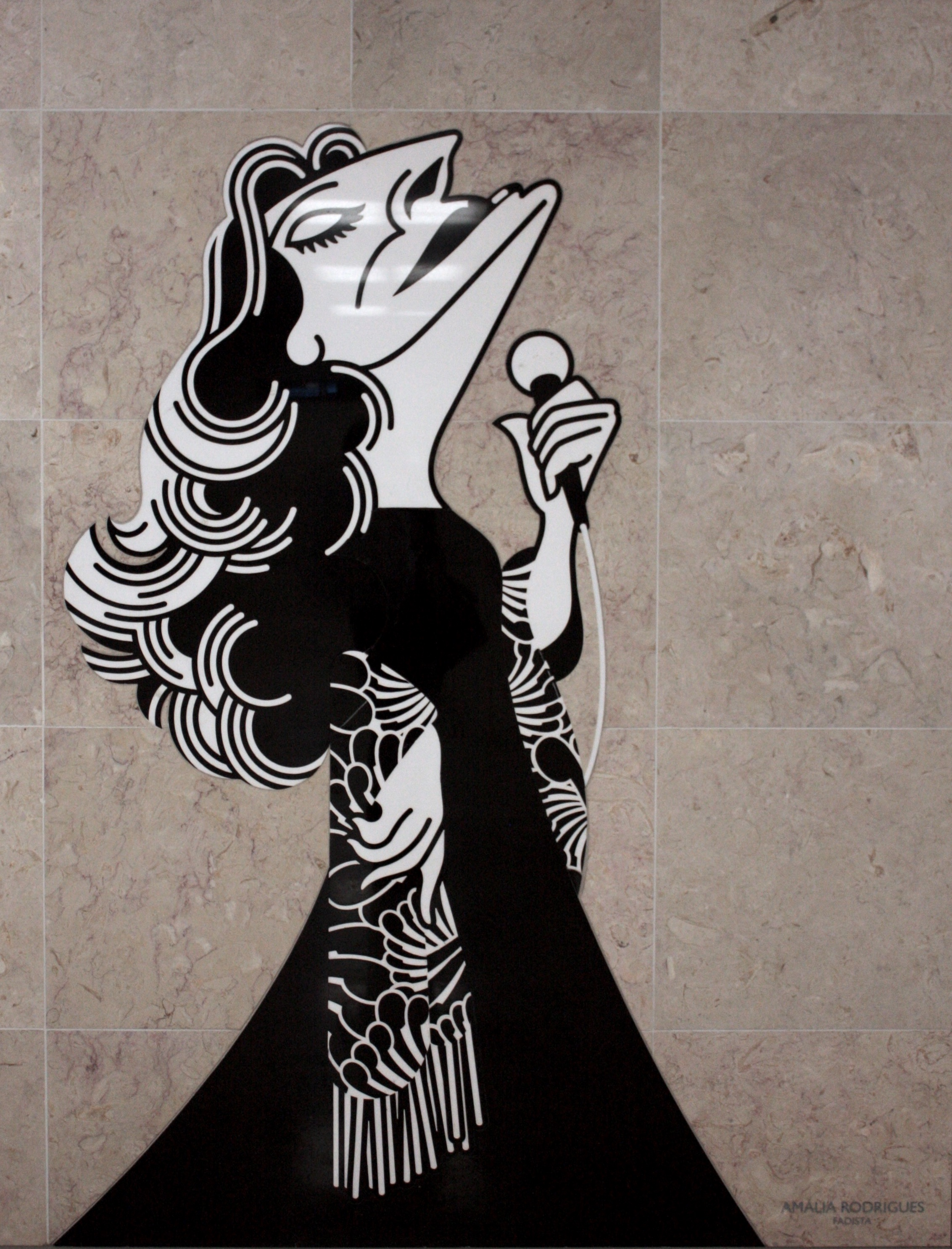 Caricature of the Portuguese singer Amália Rodrigues at Aeroporto metro station, Lisbon, Portugal